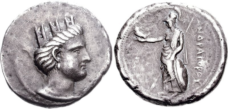 Andragoras Tetradrachm. Turreted head of Tyche right/ Athena standing left